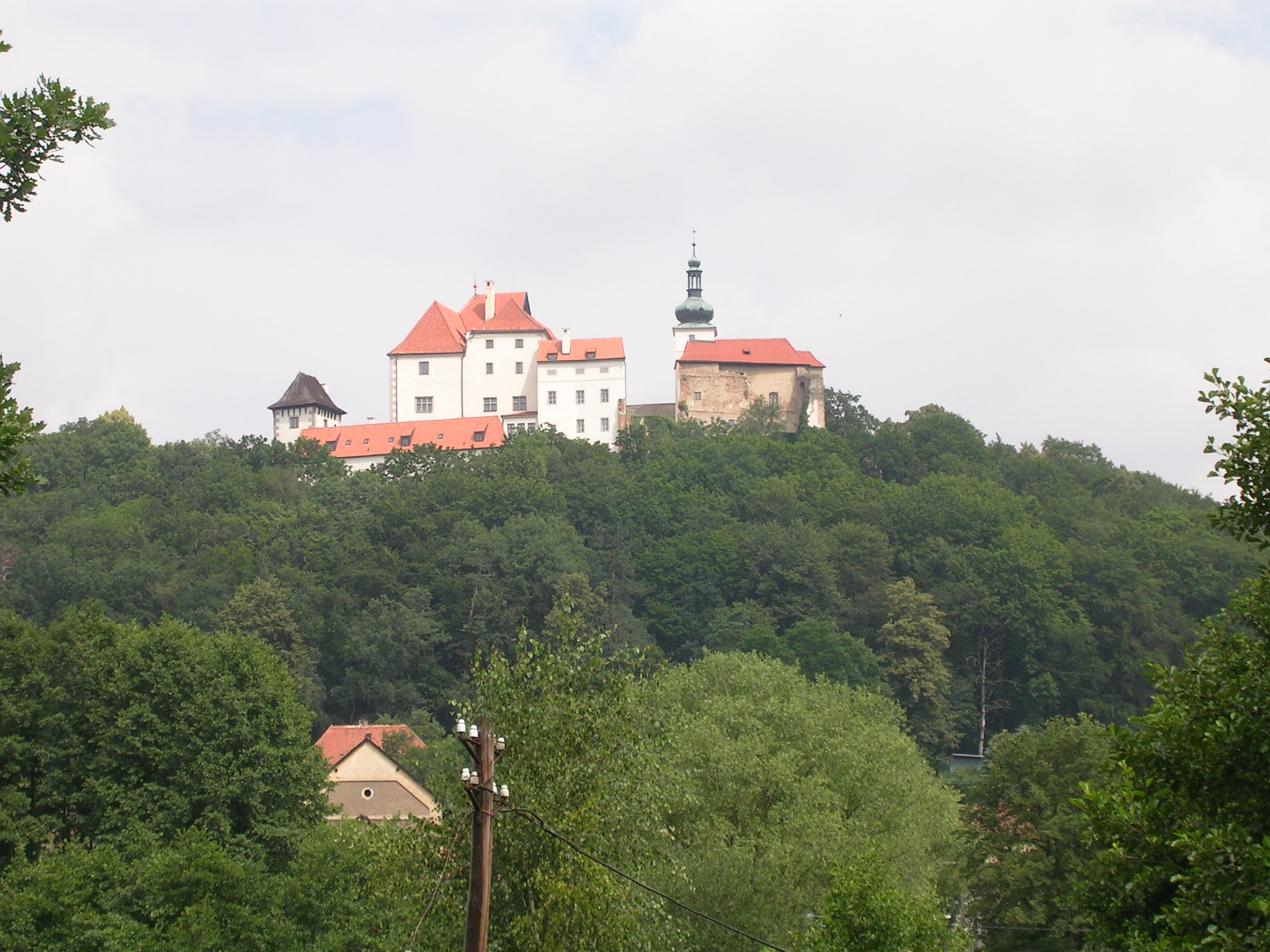 Vysoký Chlumec, Příbram District, Central Bohemian Region, the Czech Republic. The castle.